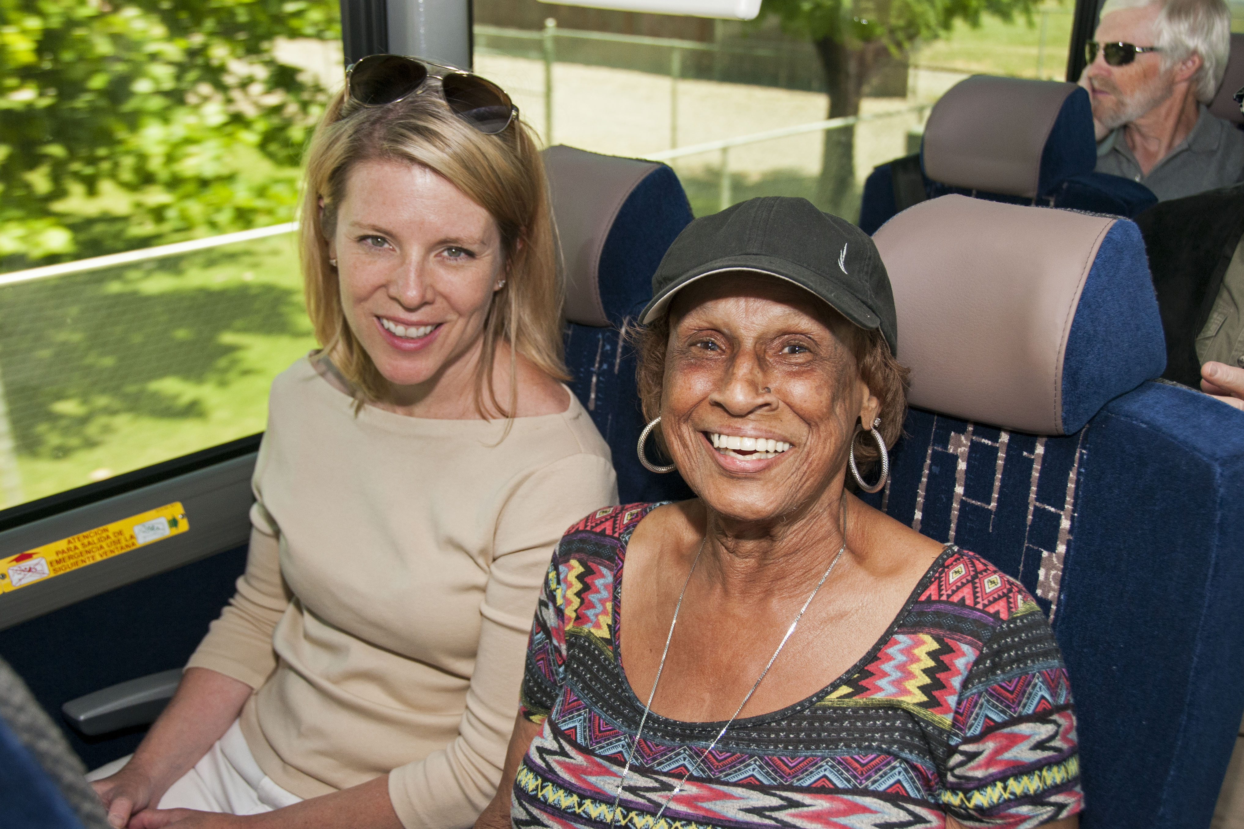 Sen. Jackie Winters (right) and Karmen Fore on the bus during the Ontario part of the Eastern Oregon tour.